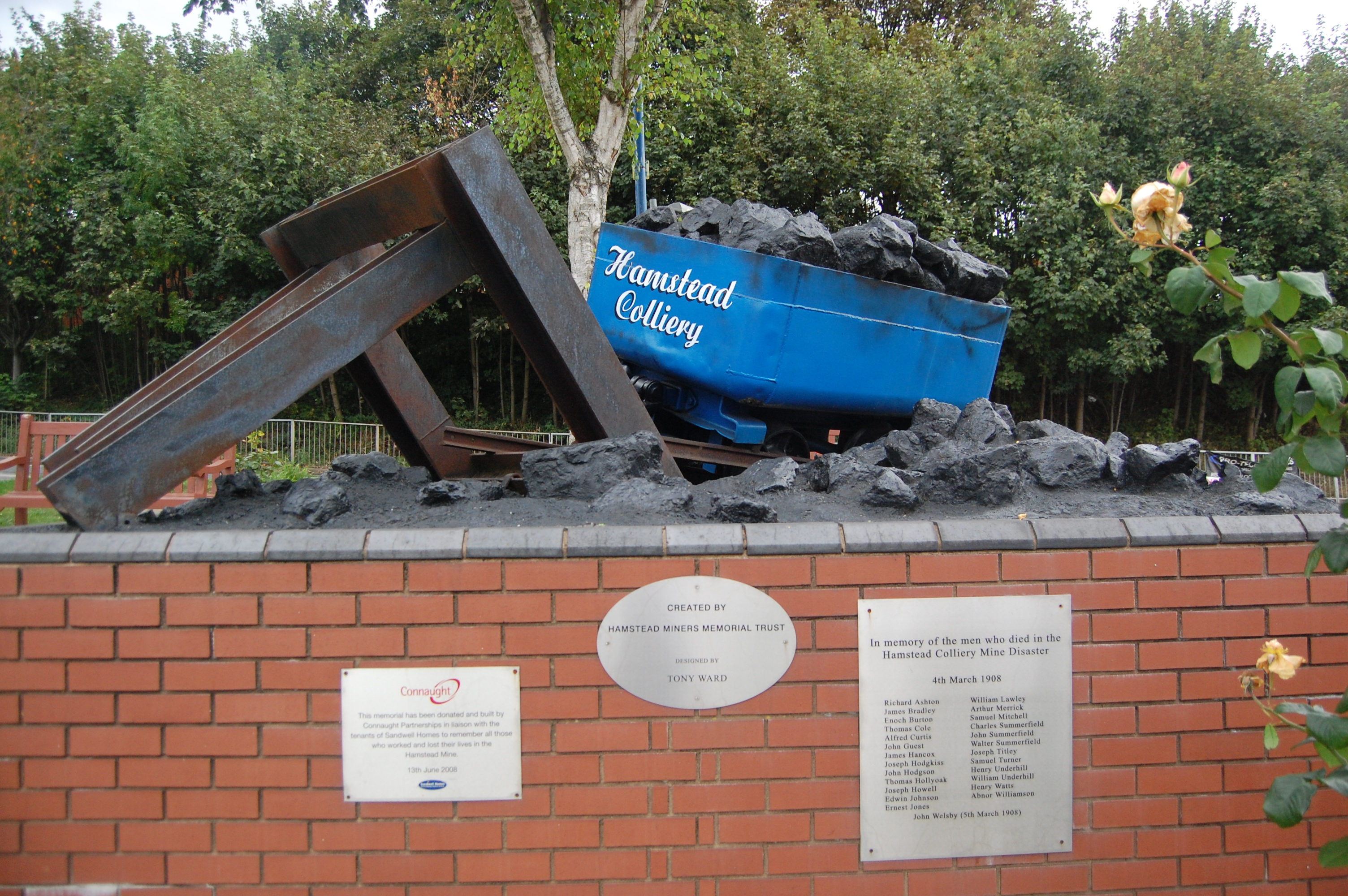 Memorial to miners lost in the 1908 Hamstead Colliery disaster. Erected in 2008 by the Hamstead Miners Memorial Trust.